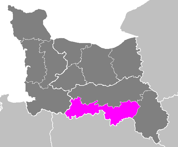 Maps of arrondissements and cantons of France: Arrondissement d Alençon.PNG